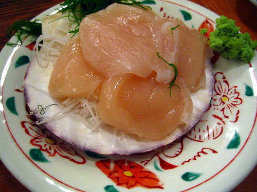 Hotate (Japanese scallop) sashimi (raw)Nama Hotate